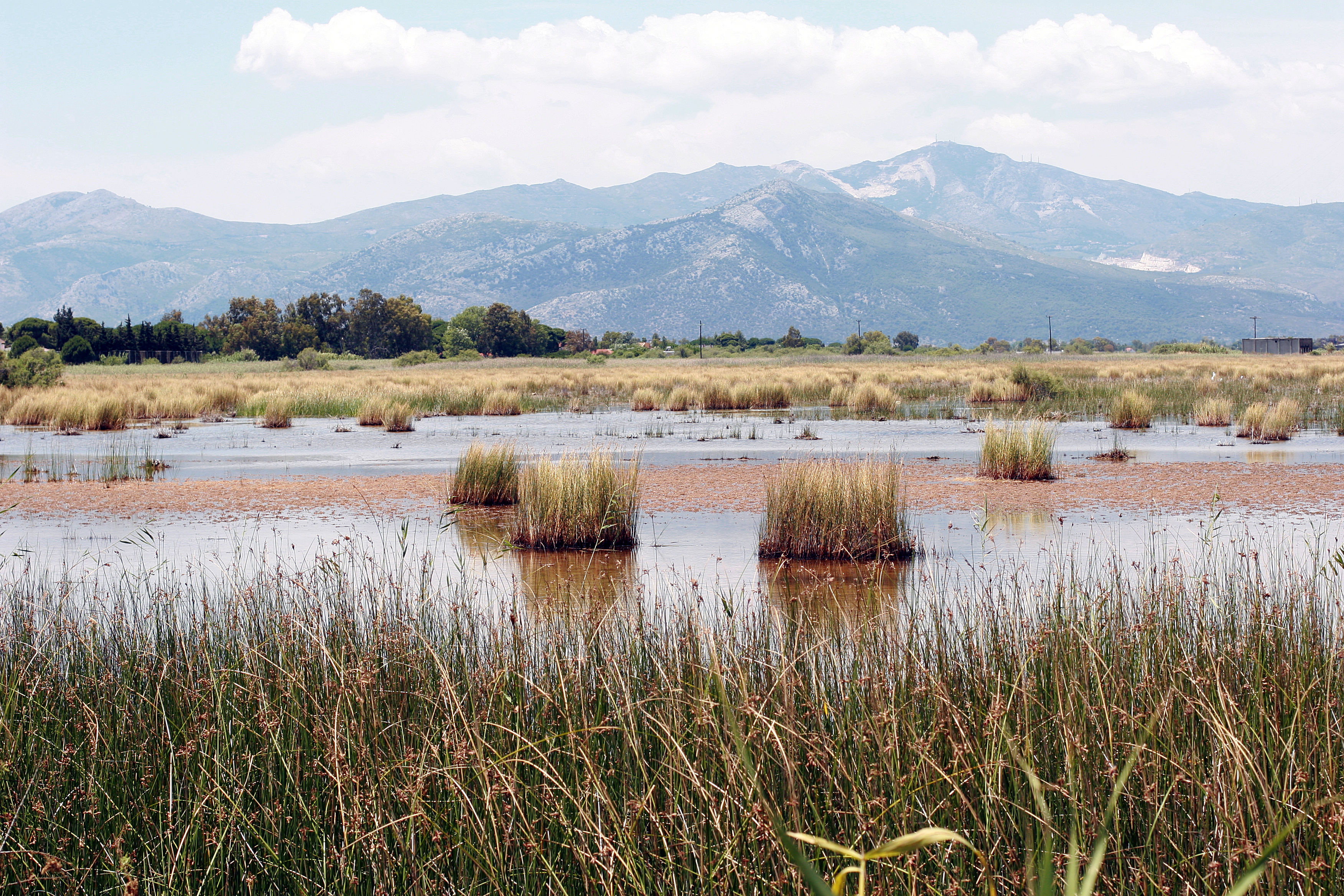 This is a photography of Natura 2000 protected area with ID GR3000003